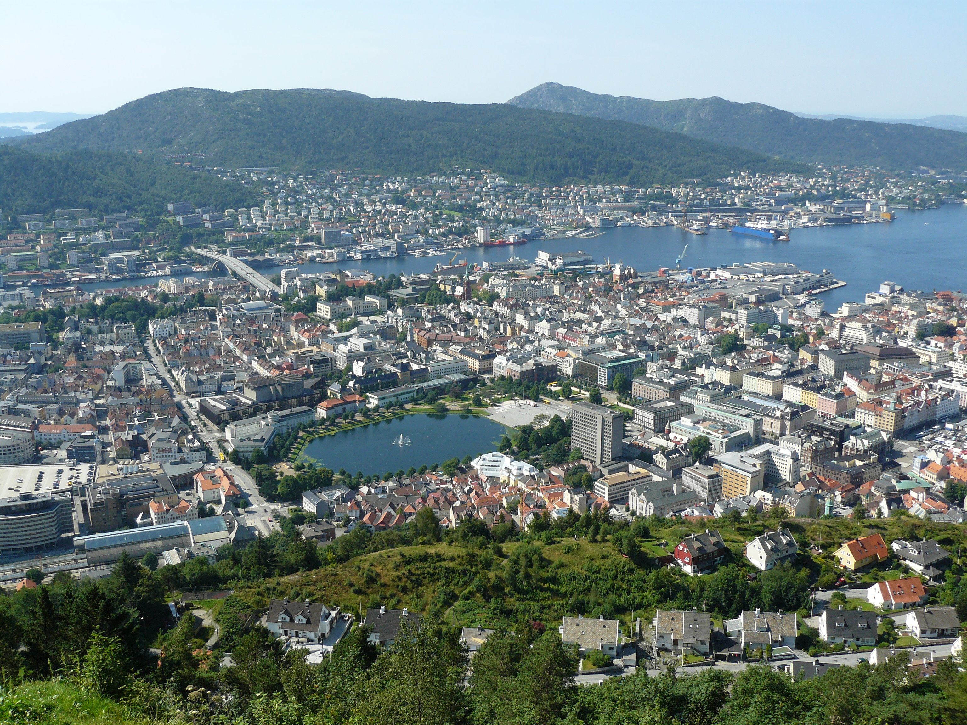 View over Bergen, seen from Fløyen